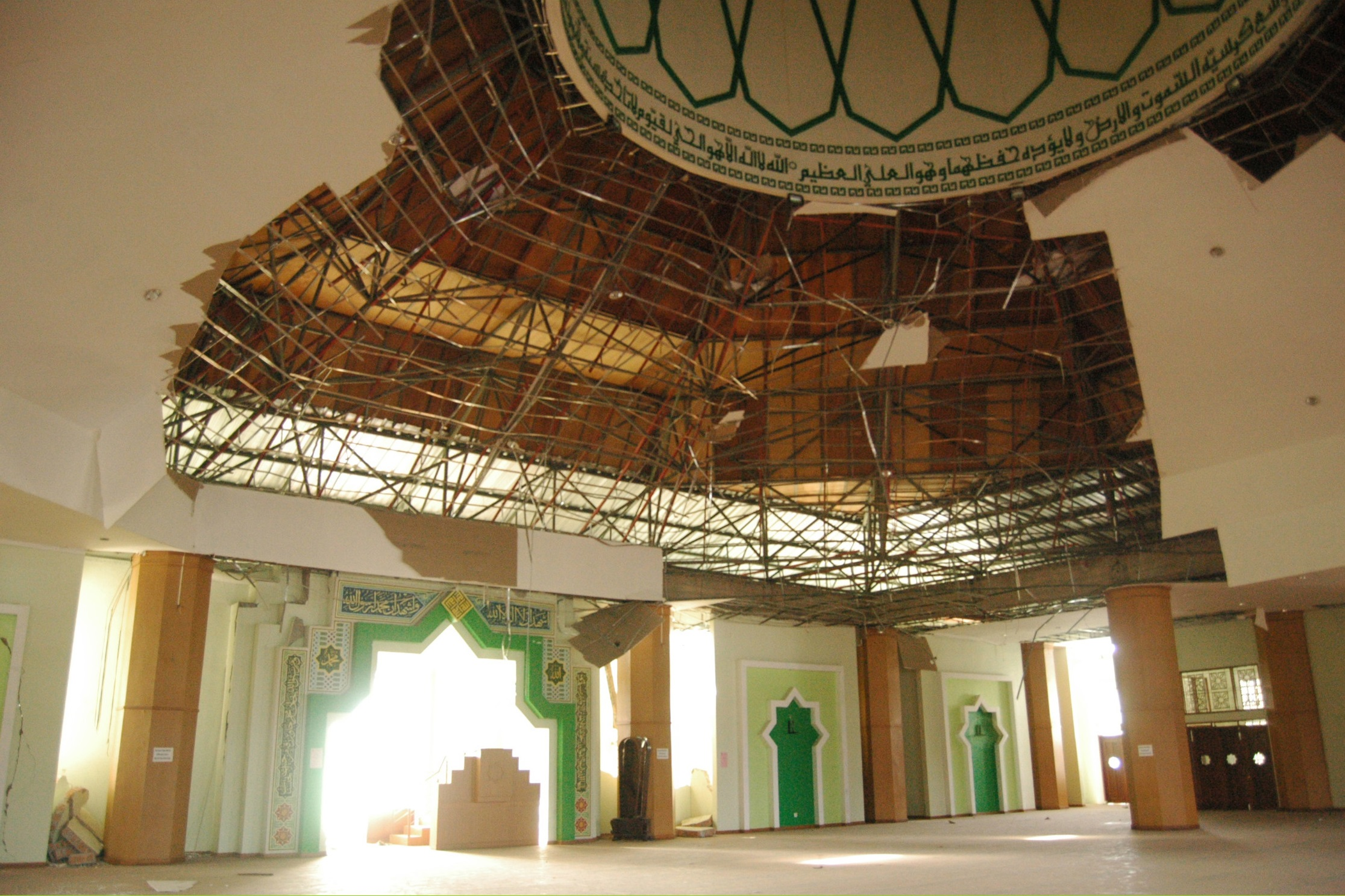 Nurul Iman Mosque in Padang City after the 2009 West Sumatra earthquake.